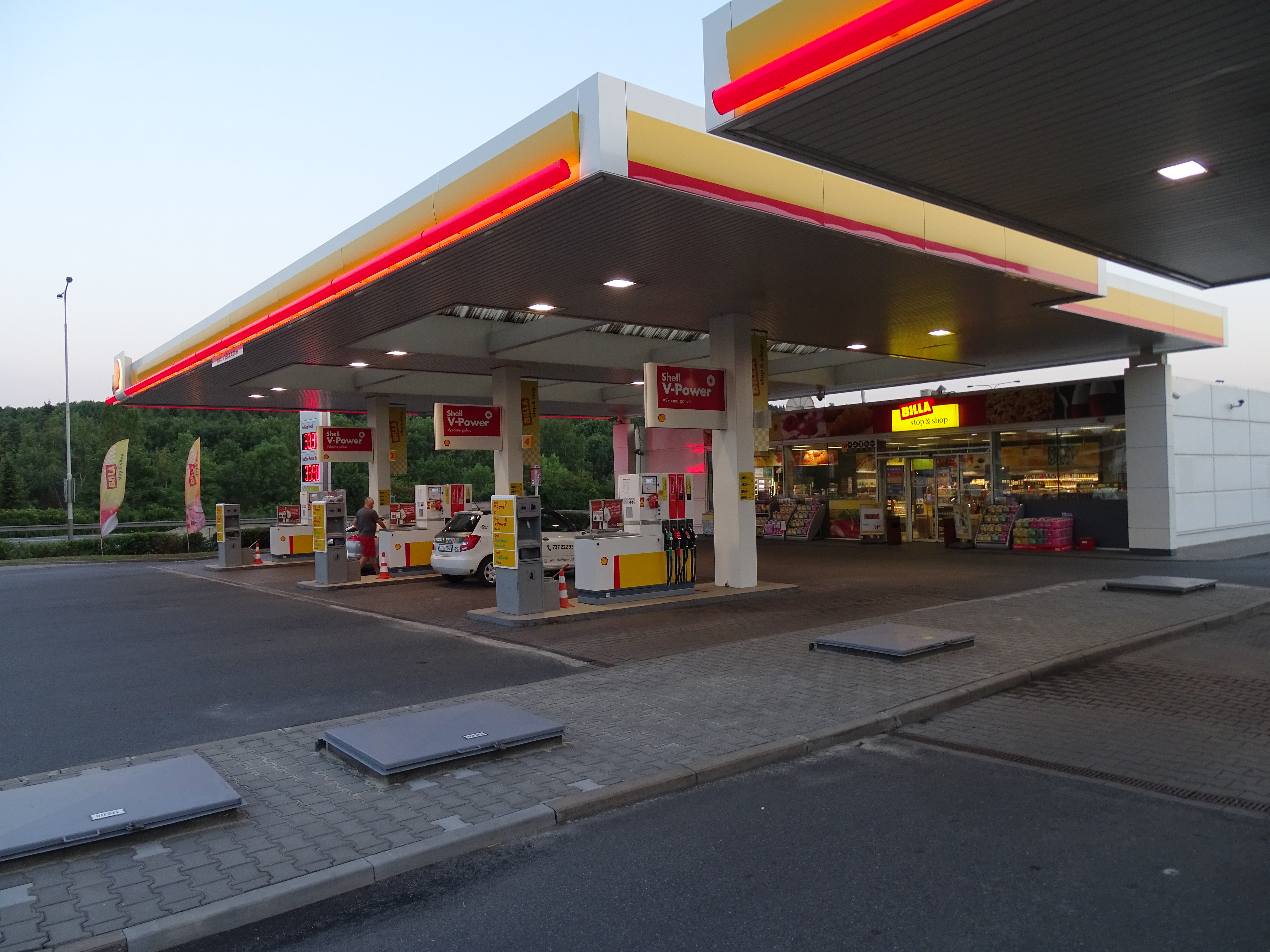 Prague-Michle, Czech Republic. Jižní spojka, Shell petrol station.